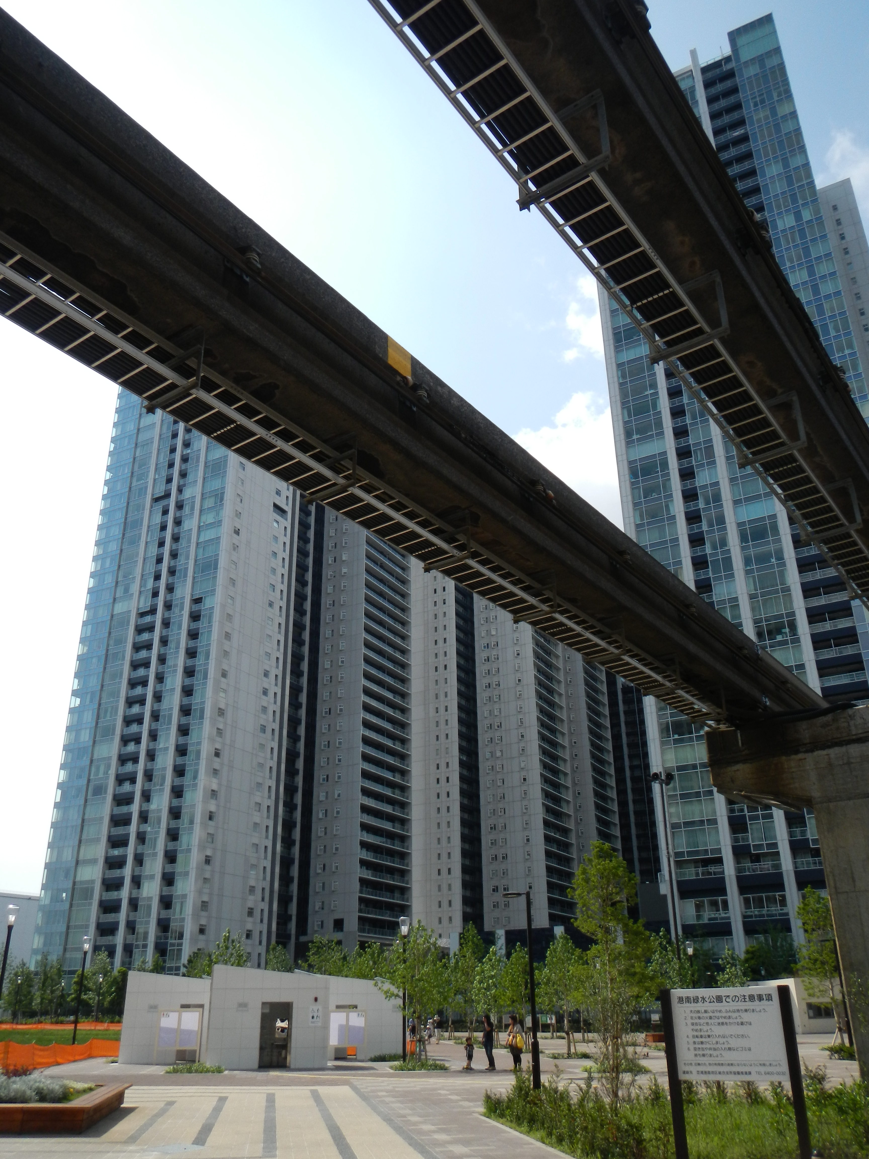 Kōnan Ryokusui Park, Shinagawa, Tokyo